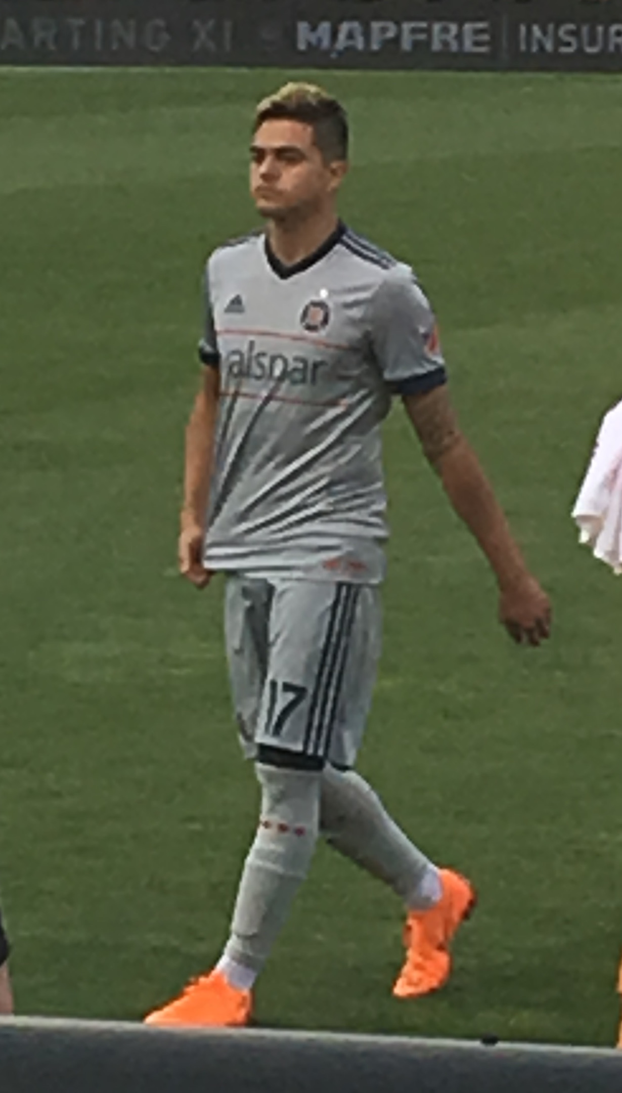 Picture of Diego Campos before a game against Columbus Crew SC on May 12, 2018.